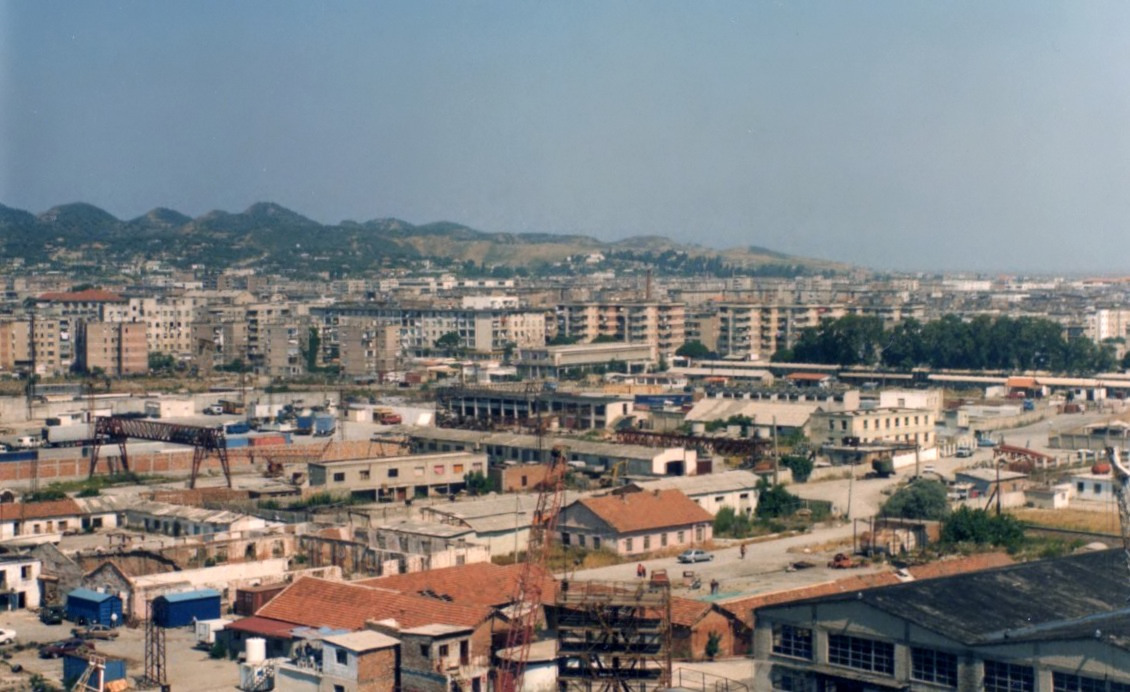 Port of Durres (Albania).